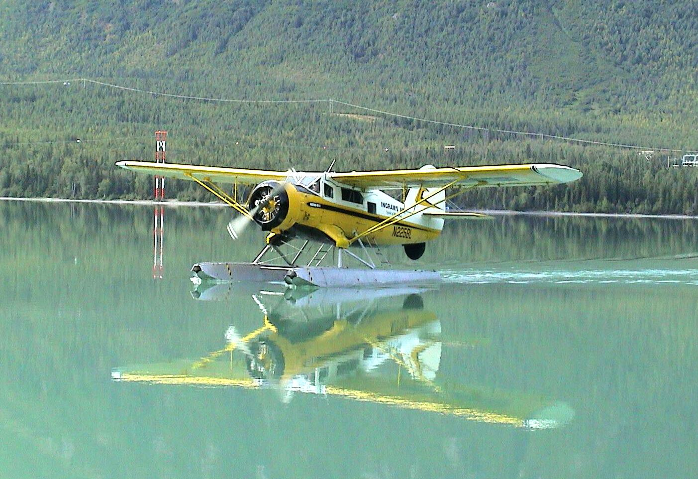 Picture of a Norseman landing on the Kenai River, Alaska. I (Eric V. Blanchard) took this photo in August 2003. I permanently relinquish all rights to the work. Evb-wiki 16:58, 23 December 2006 (UTC) (note that the landmark of the utility tower in the background establishes that this is actually Kenai Lake near where it becomes The Kenai River)